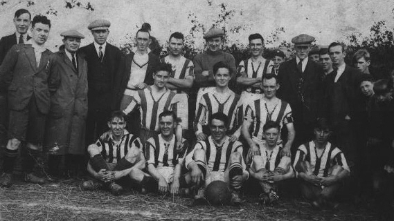 A picture of Glan Conwy "Jolly Boys" Football Club taken circa 1938